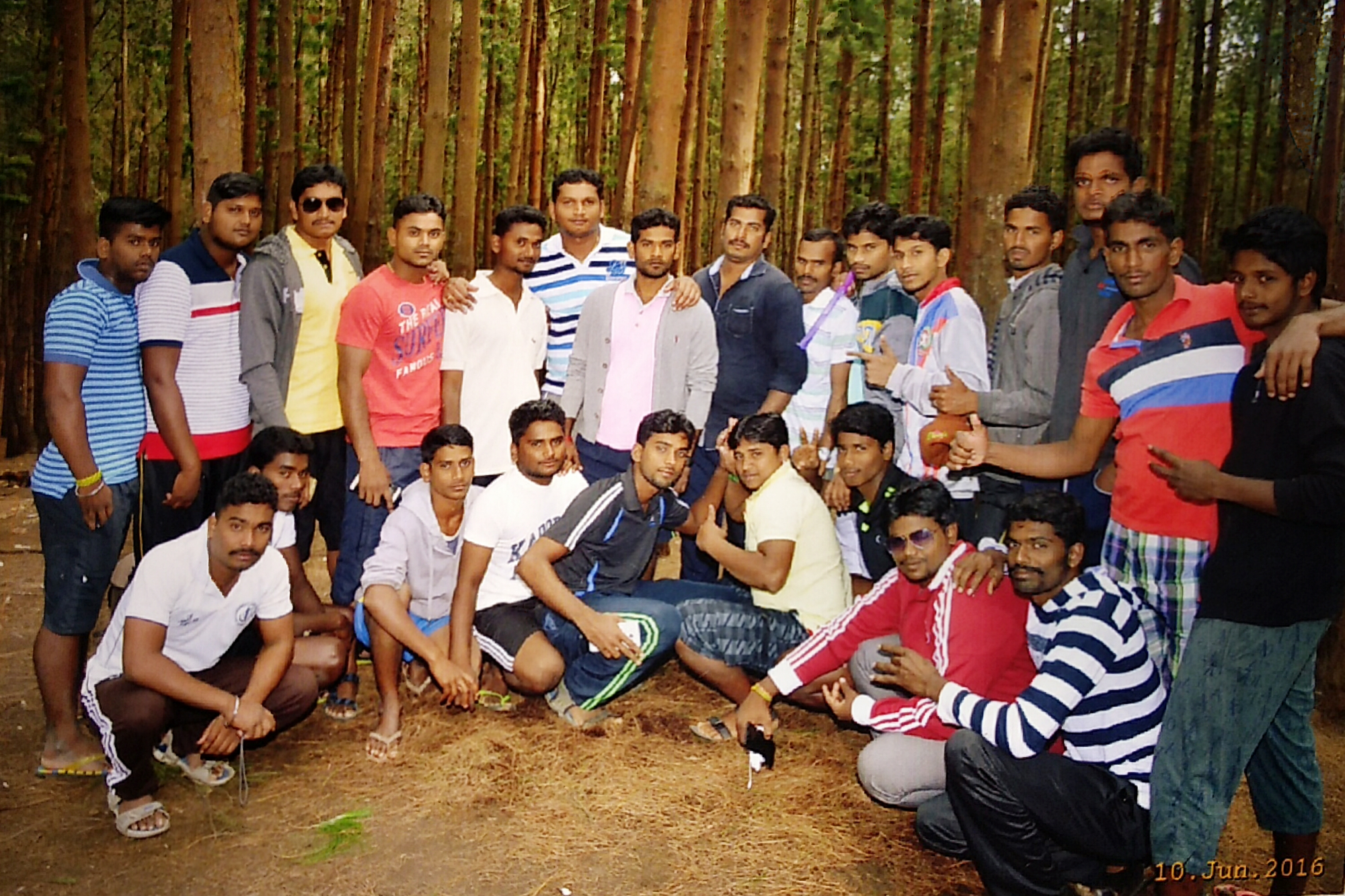 Peiklarumbankottai Thamizhannai Friends in Kondaikonal